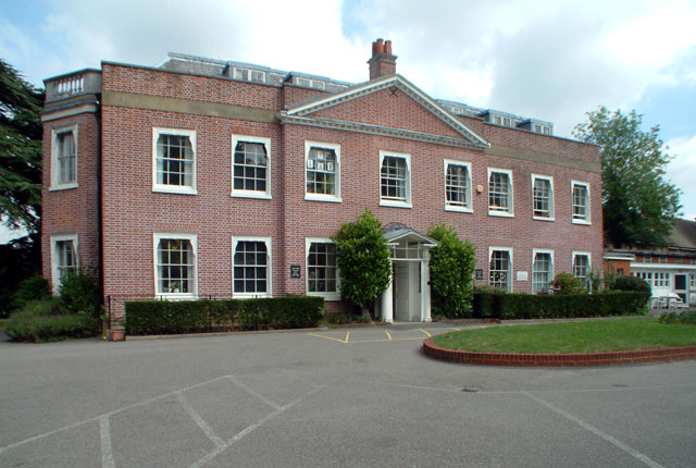 Geoffrey Harris House, Croydon. Coombe House to the north of Coombe Road dates back to 1761. A 145ft-deep well in the grounds of the house was said to be used by Pilgrims to Canterbury on their journey to join the Pilgrims' Way, having come via the Archbishop's Croydon Palace. Substantial changes were made to the house in the 1830s. The house is now called Geoffrey Harris House, and is run by Surrey and Borders Partnership NHS Trust as a care home for people with mental health and learning difficulties.